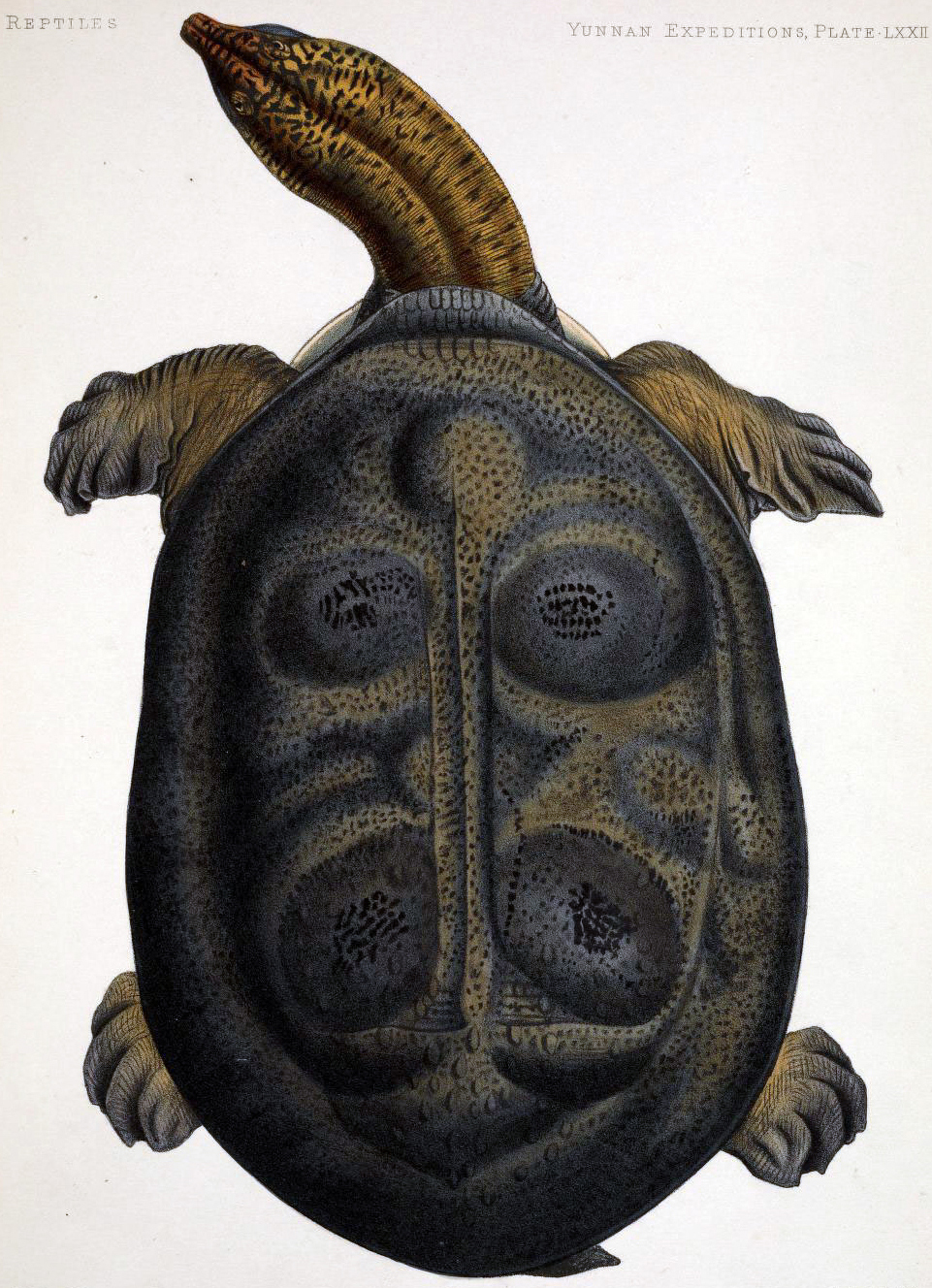 Burmese flapshell turtle.